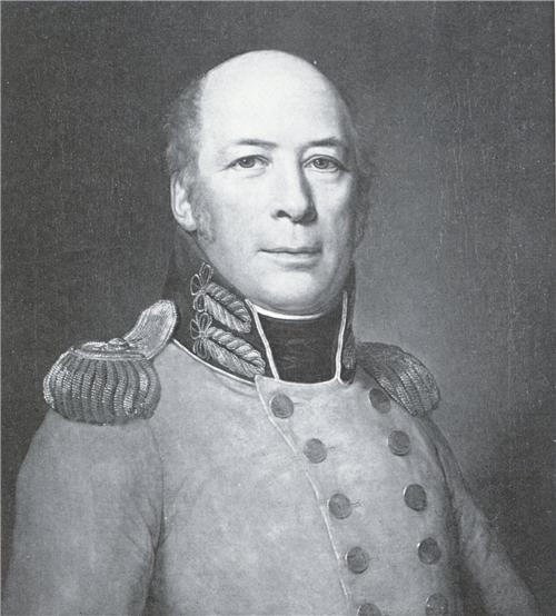 Peter Lotharius Oxholm (1753-1827), Danish lieutenant general and governor-general